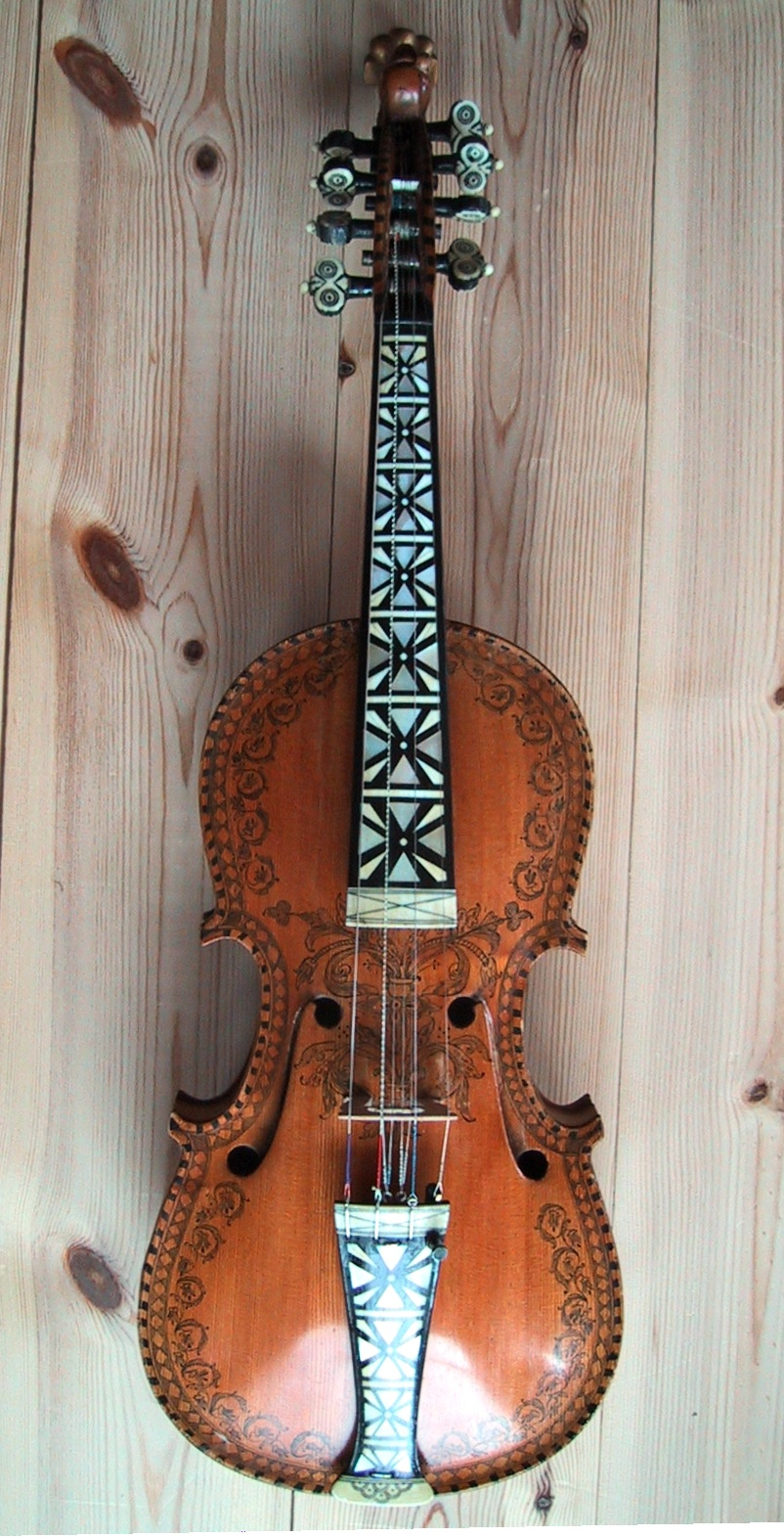 A Hardanger fiddle made by Knut Gunnarsson Helland. Owned by Monica Skaro, who inherited it from her grandfather Knut Skaro from Geilo, Norway. Norsk (bokmål): Hardingfele laget av Knut Gunnarsson Helland. Eier er Monica Skaro, som arvet den etter sin bestefar Knut Skaro fra Geilo.